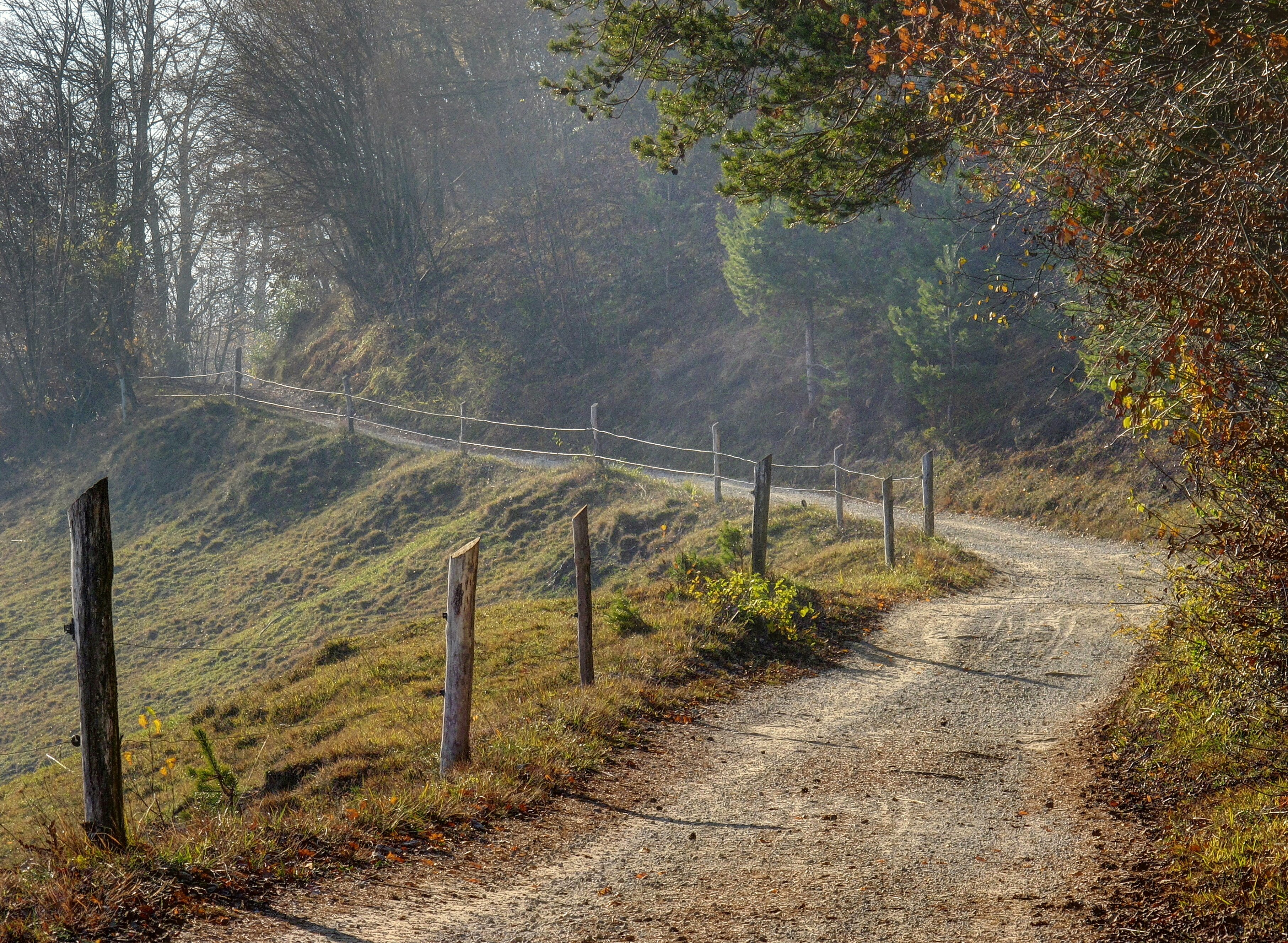 Into the woods